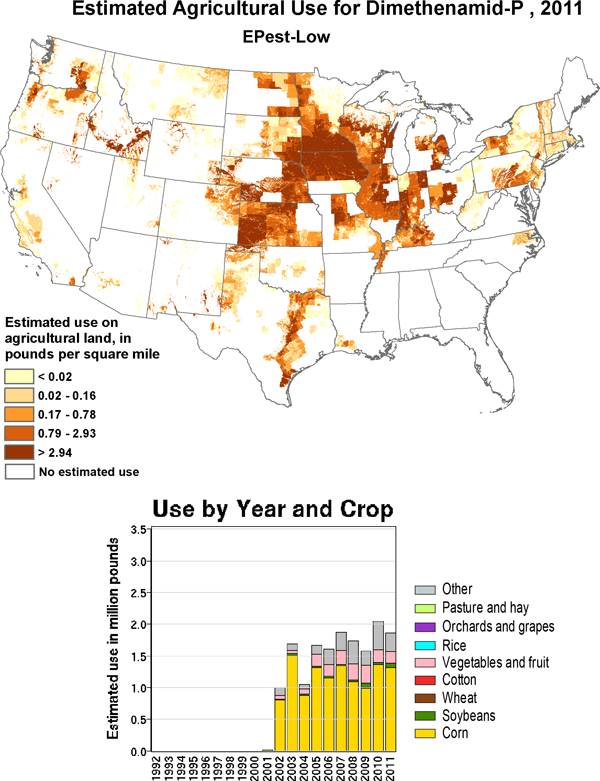 Dimethenamid-P map of use, USA, 2011 (estimated)